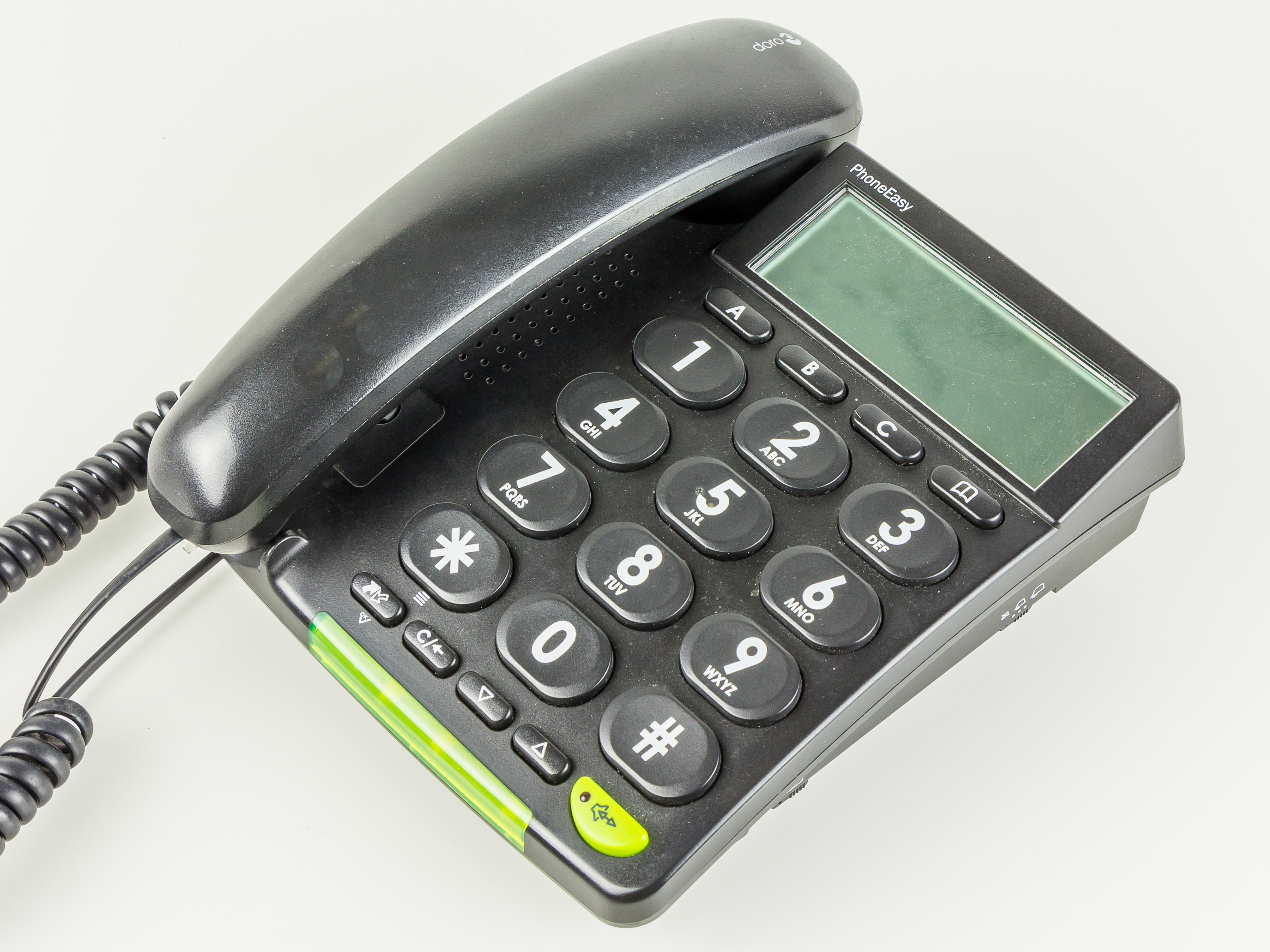 Doro PhoneEasy 312cs